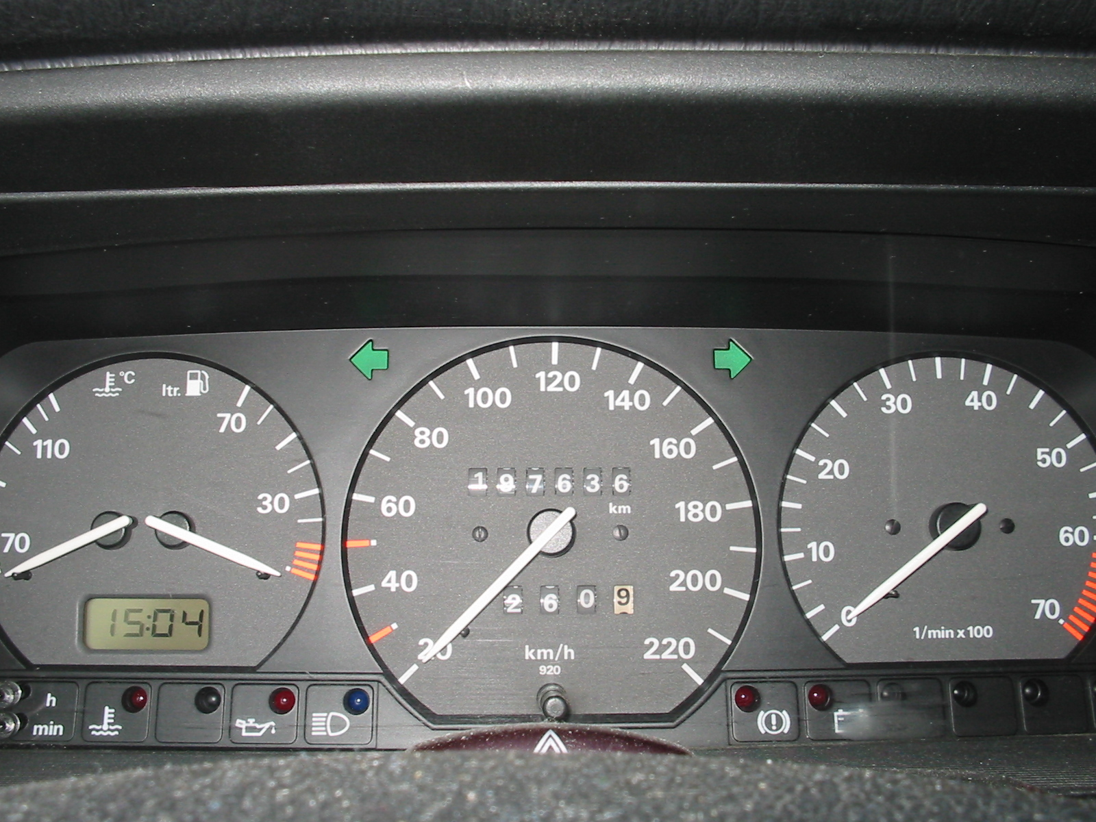 Cockpit view of speed indicator from VW Passat, 1995 model. author: DonQuichot